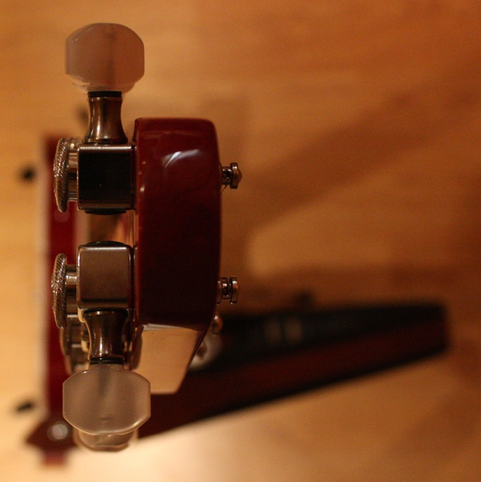 Red Special